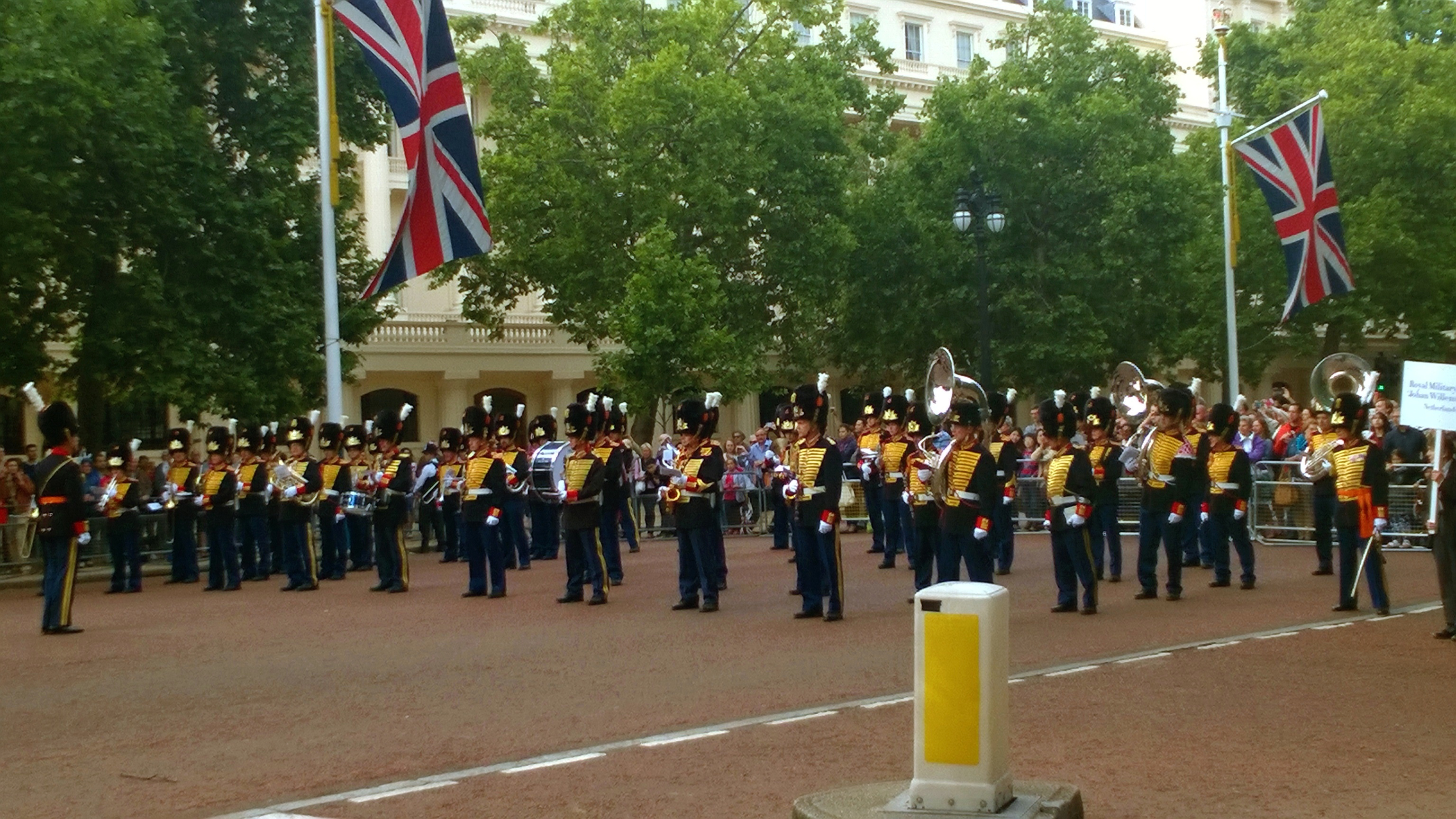 Royal Military Band 'Johan Willem Friso' of the Royal Netherlands Army